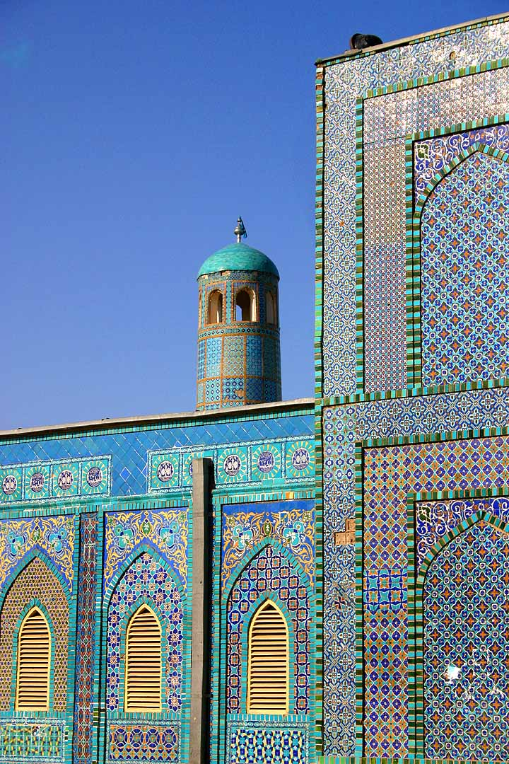 The blue mosque in Mazari Sharif, which is a city in northern Afghanistan.